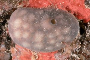 Chondrosia reniformis Nardo, 1847